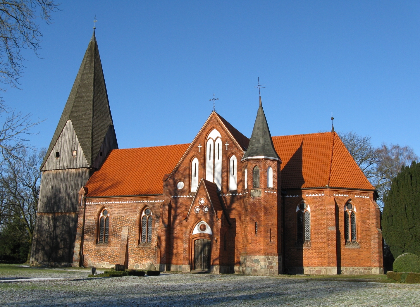 Church in Parum, Mecklenburg-Vorpommern, Germany